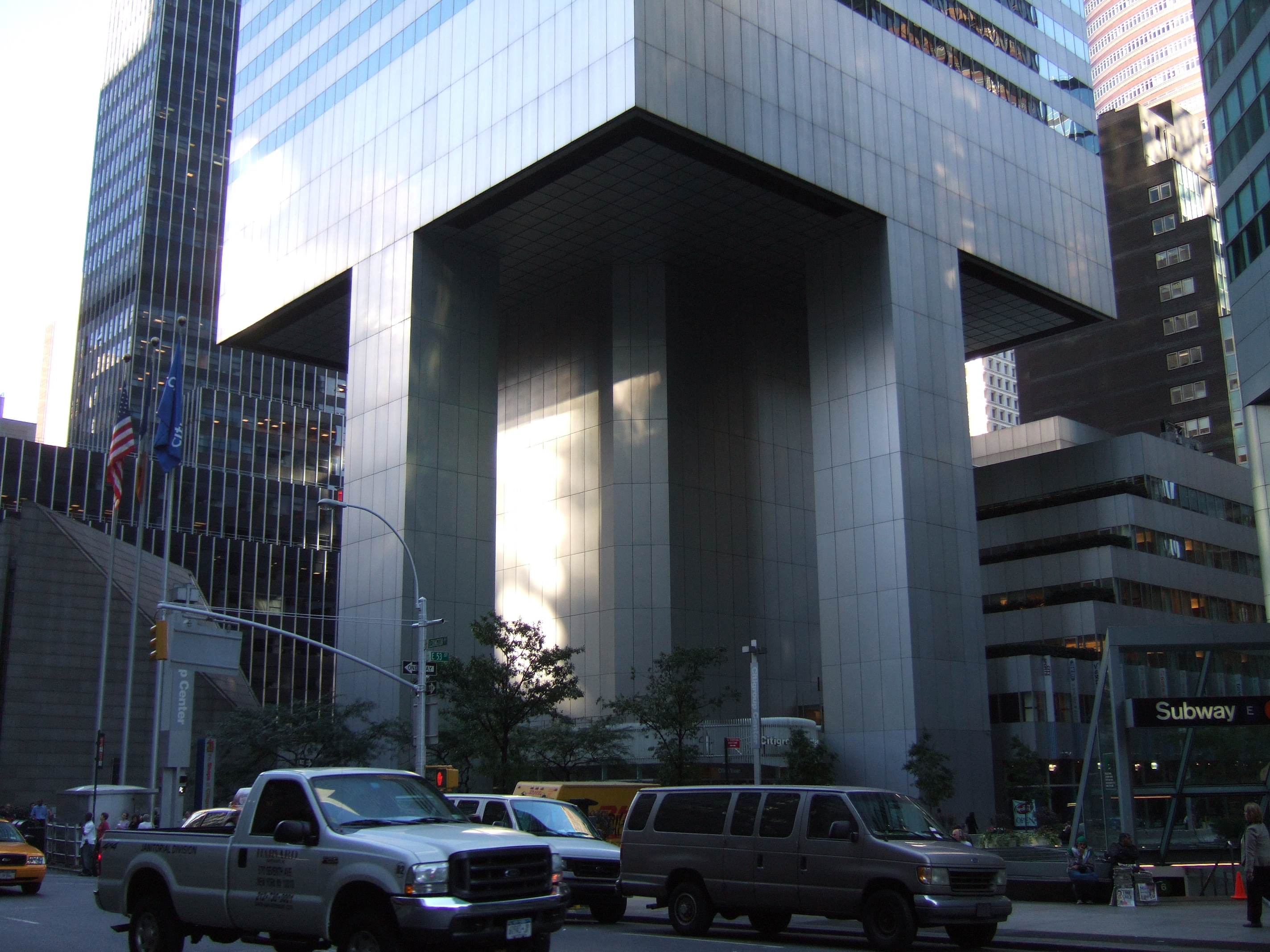 Citigroup Center. Taken October 2006.